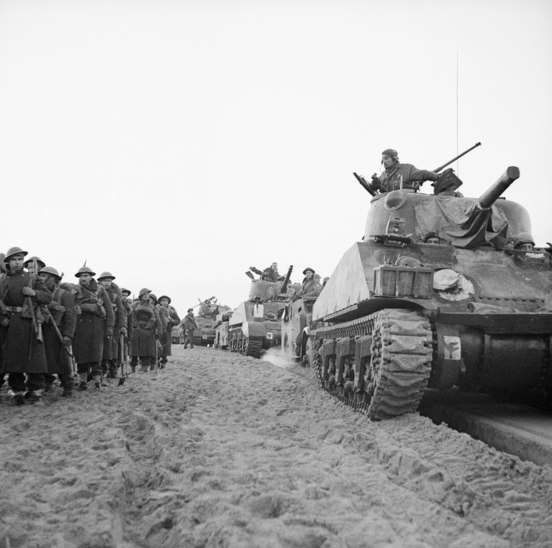 Sherman tanks of 23rd Armoured Brigade come ashore with infantry at Anzio, Italy, 22 January 1944. Sherman tanks of 23rd Armoured Brigade and infantry on the beach at Anzio, 22 January 1944.